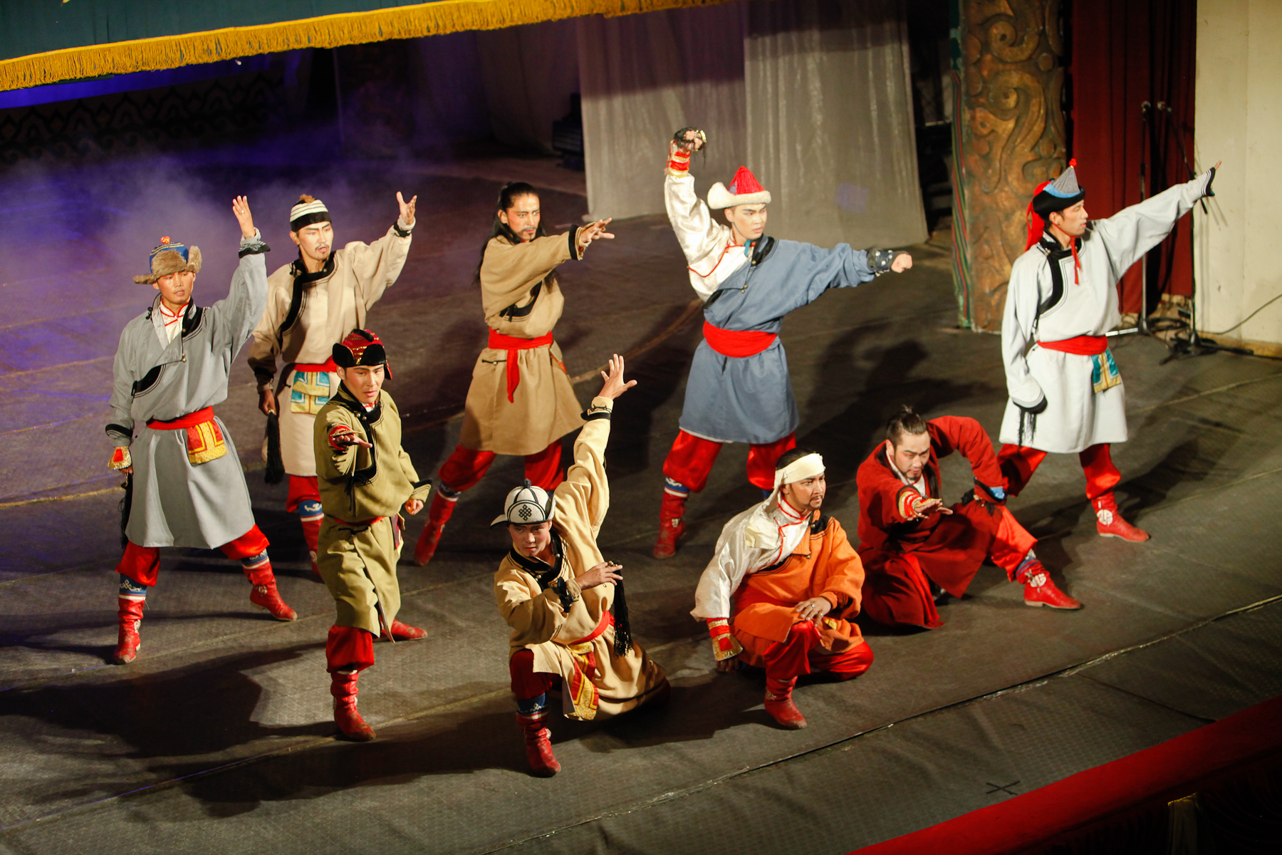 Mongolian traditional folk dance